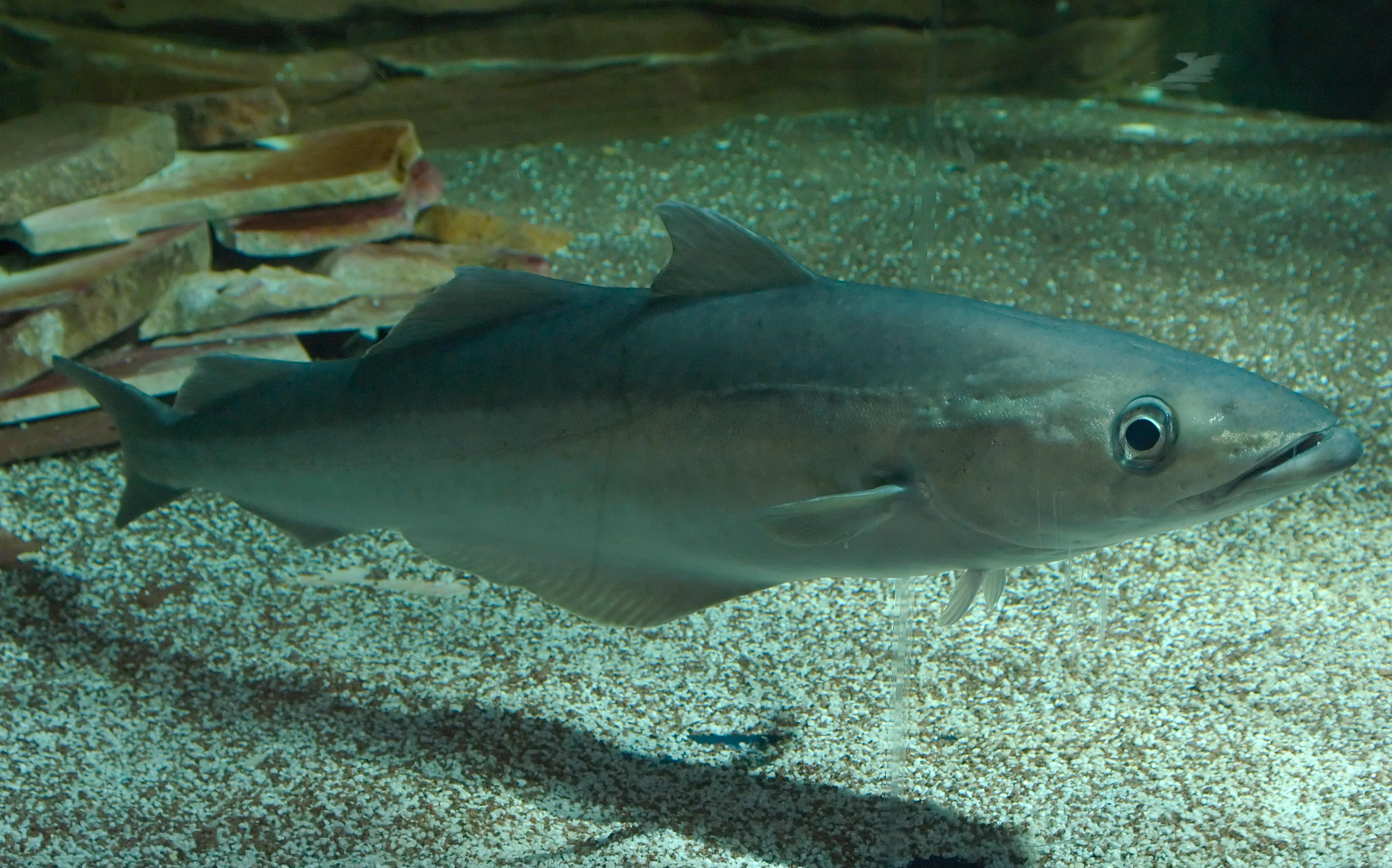 pollock